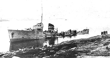 The Norwegian Sleipner class destroyer HNoMS Æger